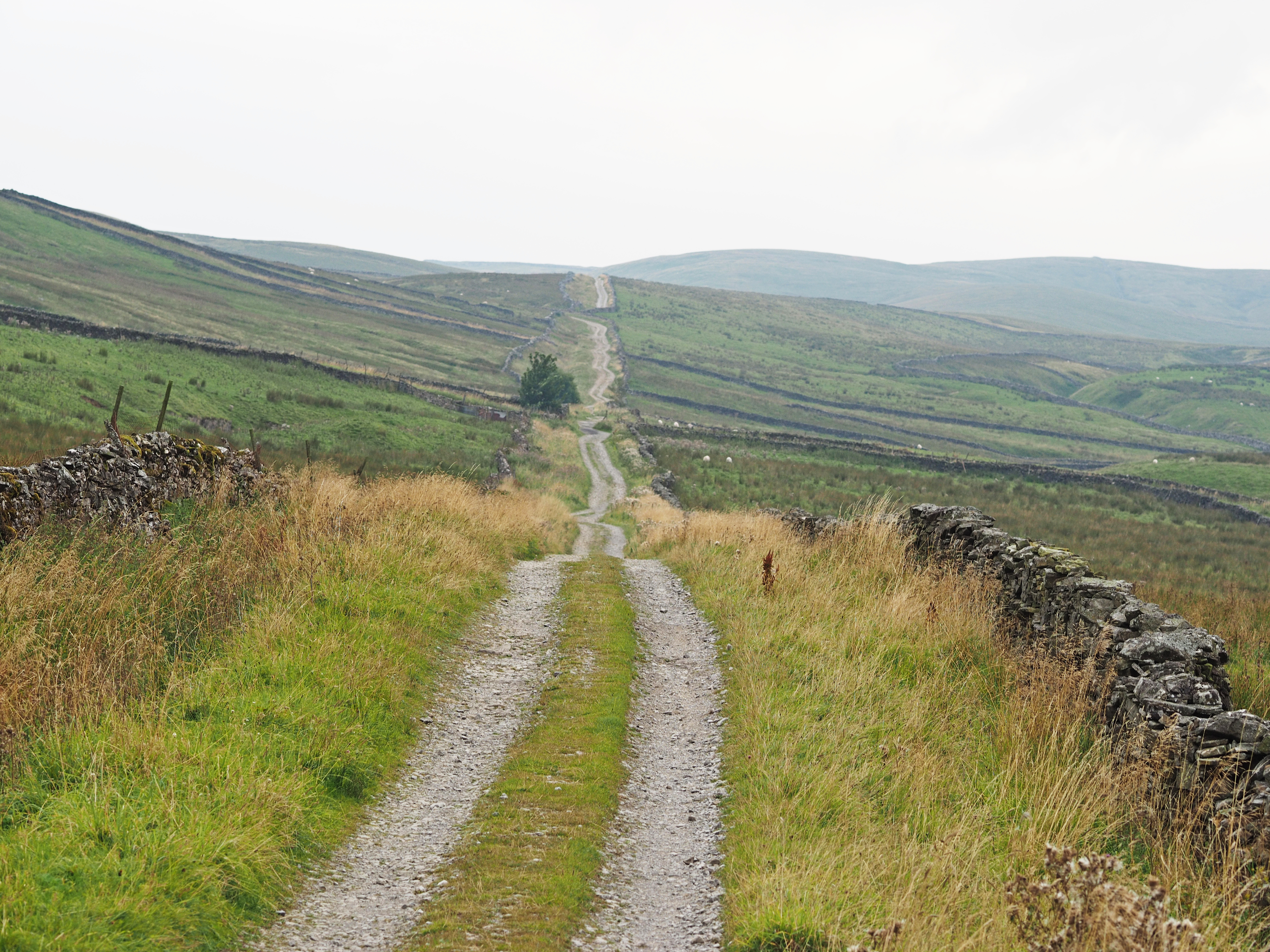 Cam High Road, Wensleydale, Roman Road